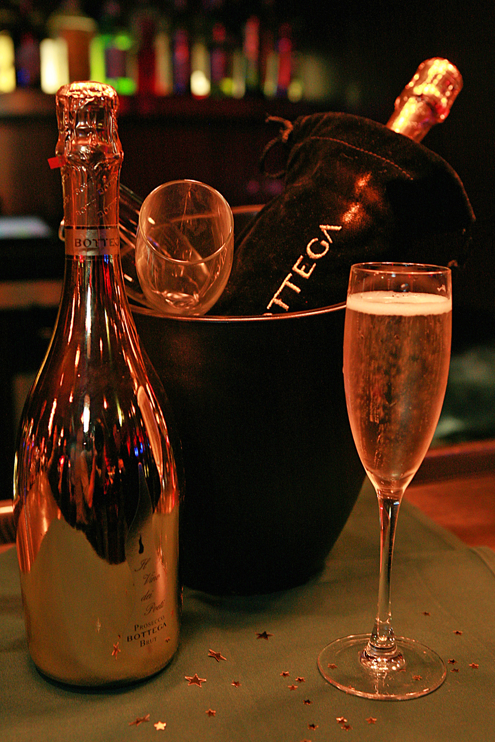 Prosecco Gold